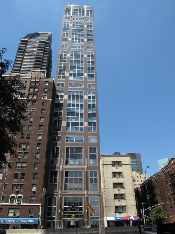 The German consulate building near the UN in New York City.